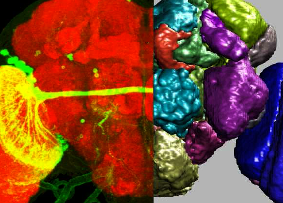 V3D rendering of both multicolor 3d volume and 3d surfaces